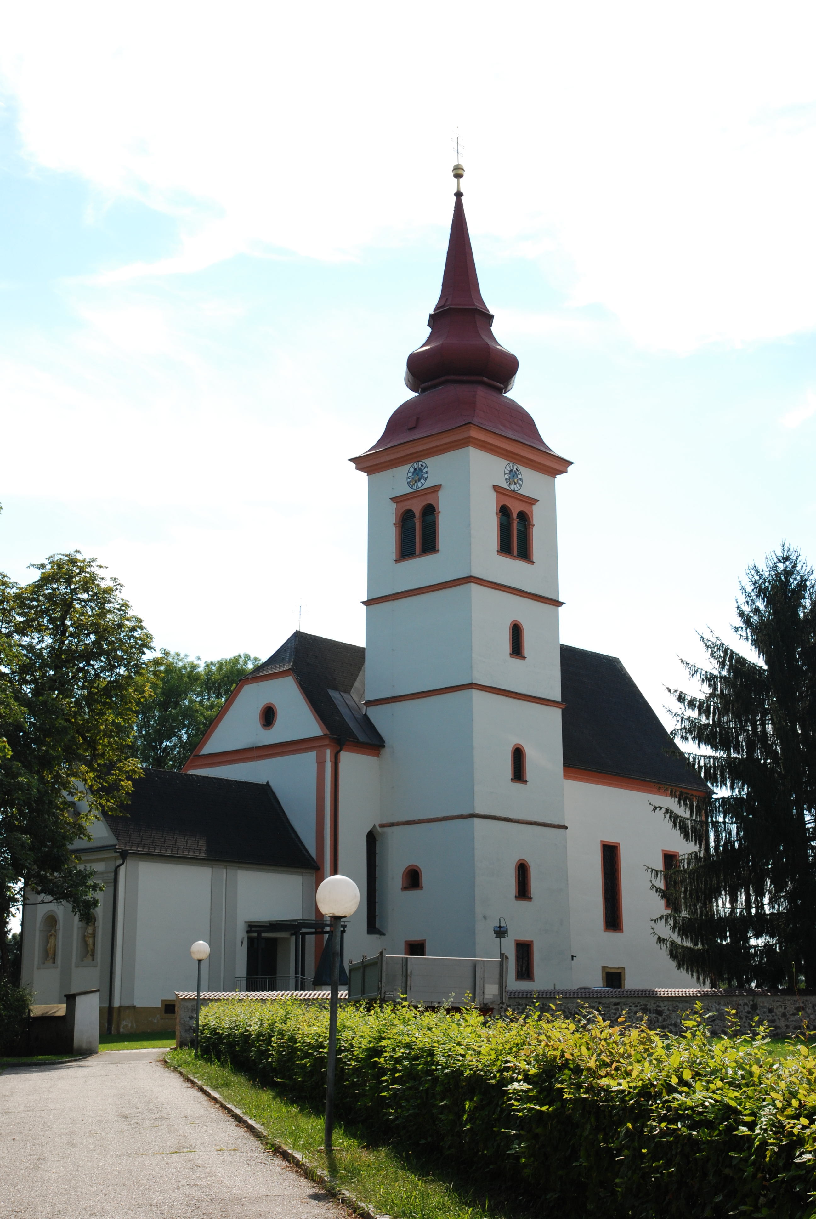 Pfarrkirche Halbenrain